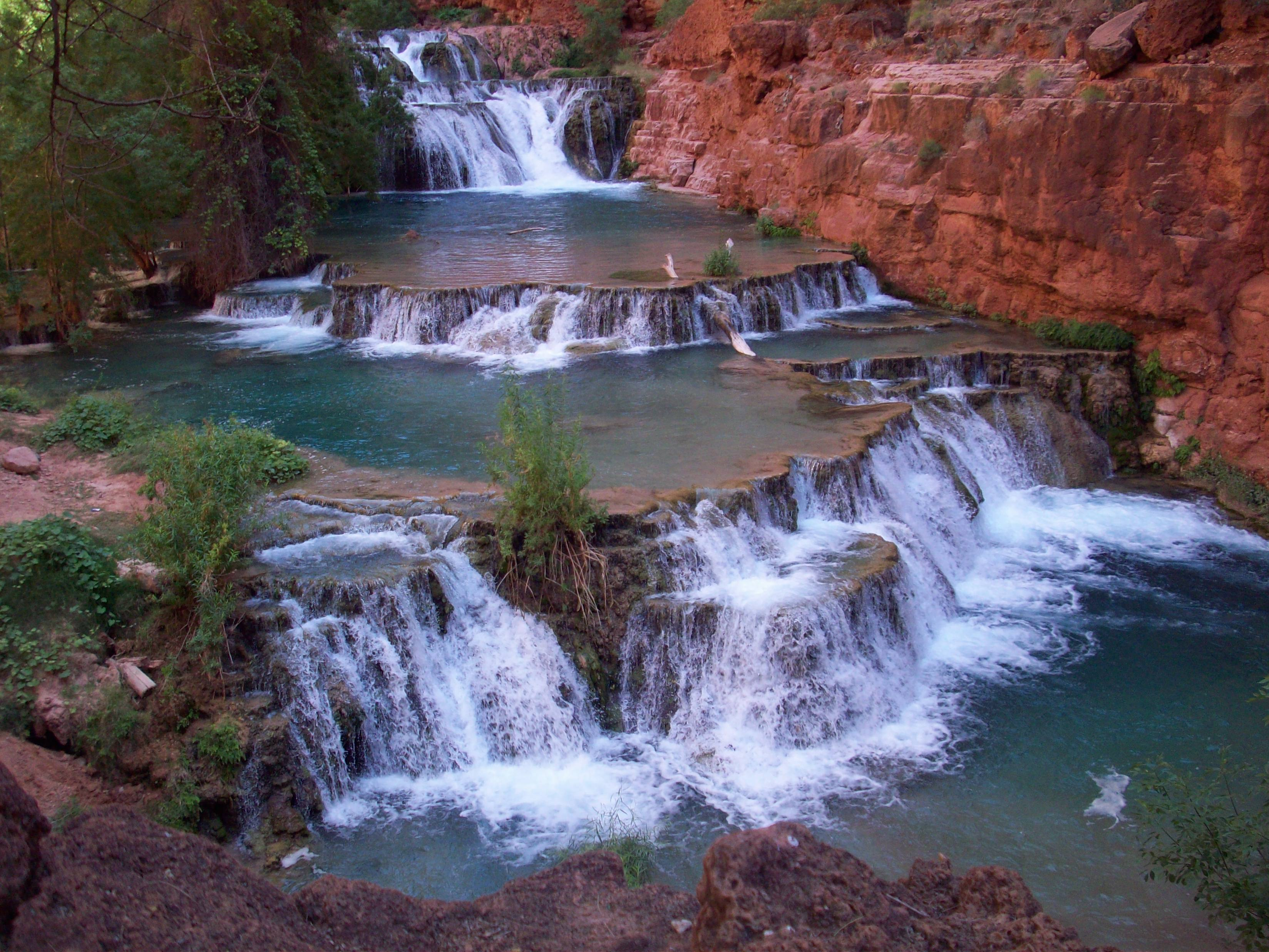 Beaver Falls in the Havasupai reservation in the Grand Canyon.